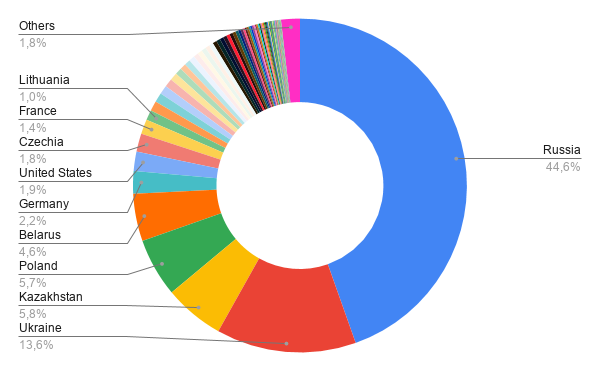 Little Big (band) YouTtube Views in a Year by Country. Source - made into